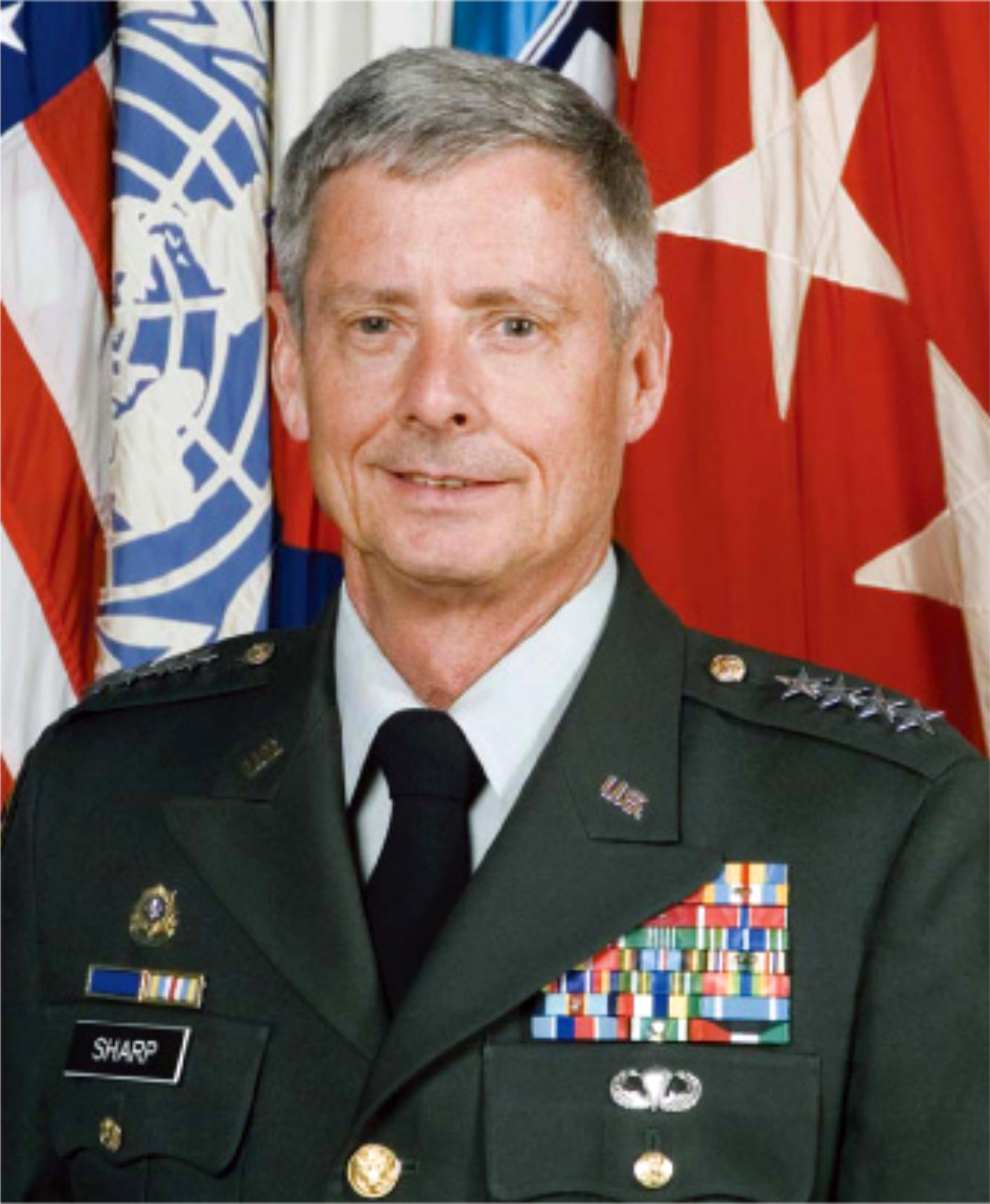 Official portrait of General Walter L. Sharp